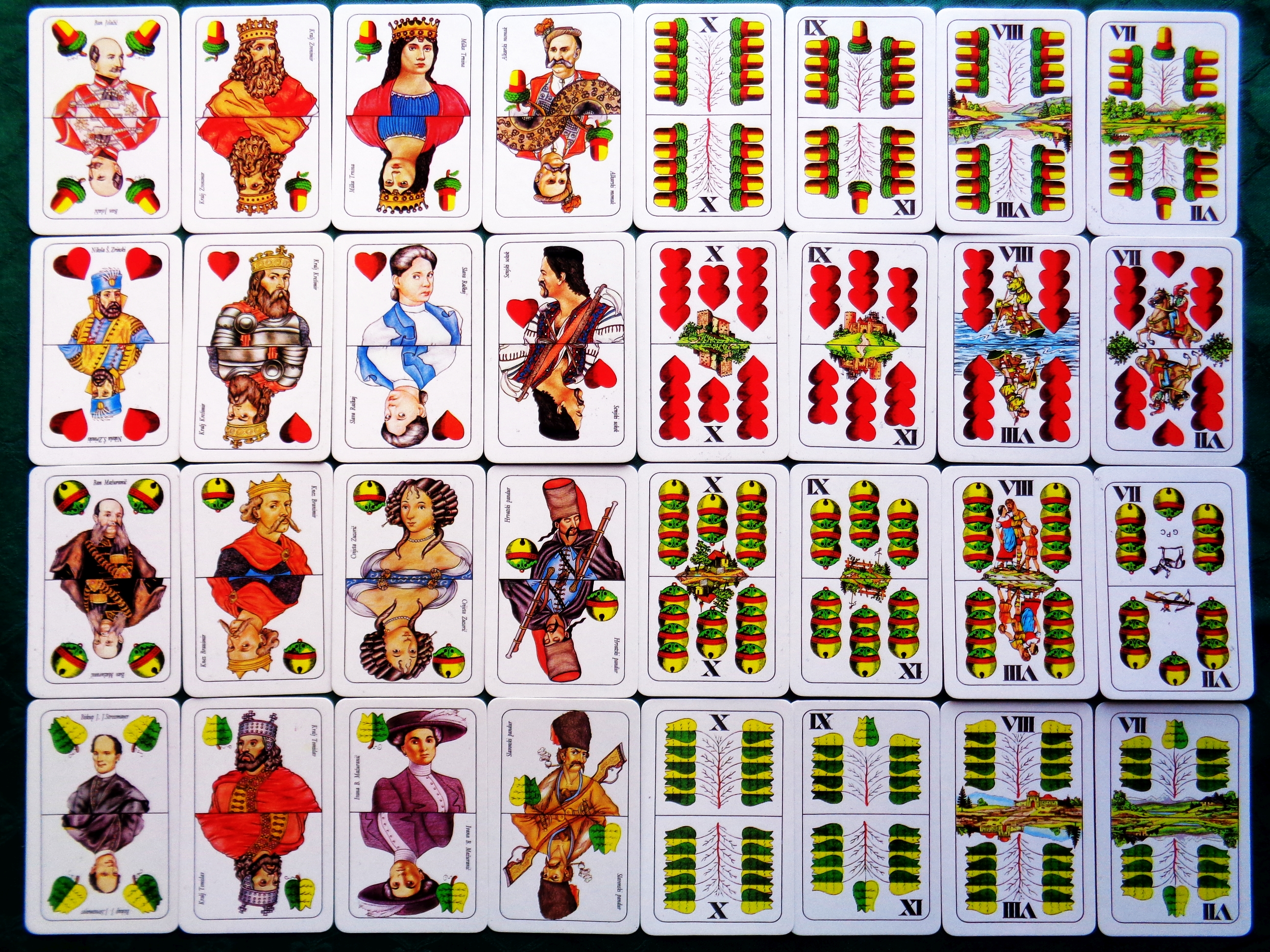 Croatian playing cards deck